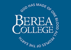 This is the Official Berea College Logo. It is used in the article on Berea college, so that users can instantly identify that they have come to the correct article.